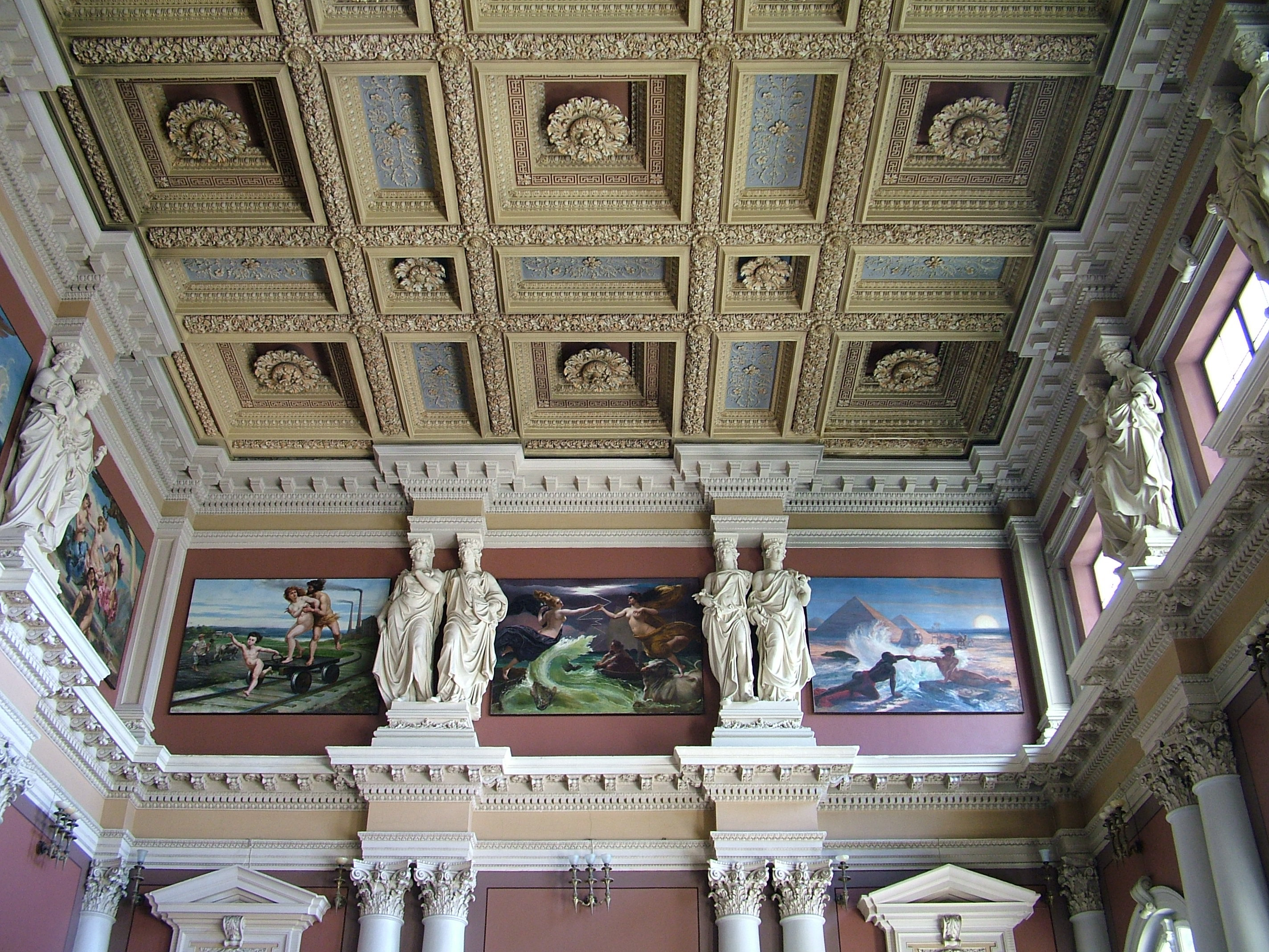 Lviv Polytechnic National University. Assembly Hall